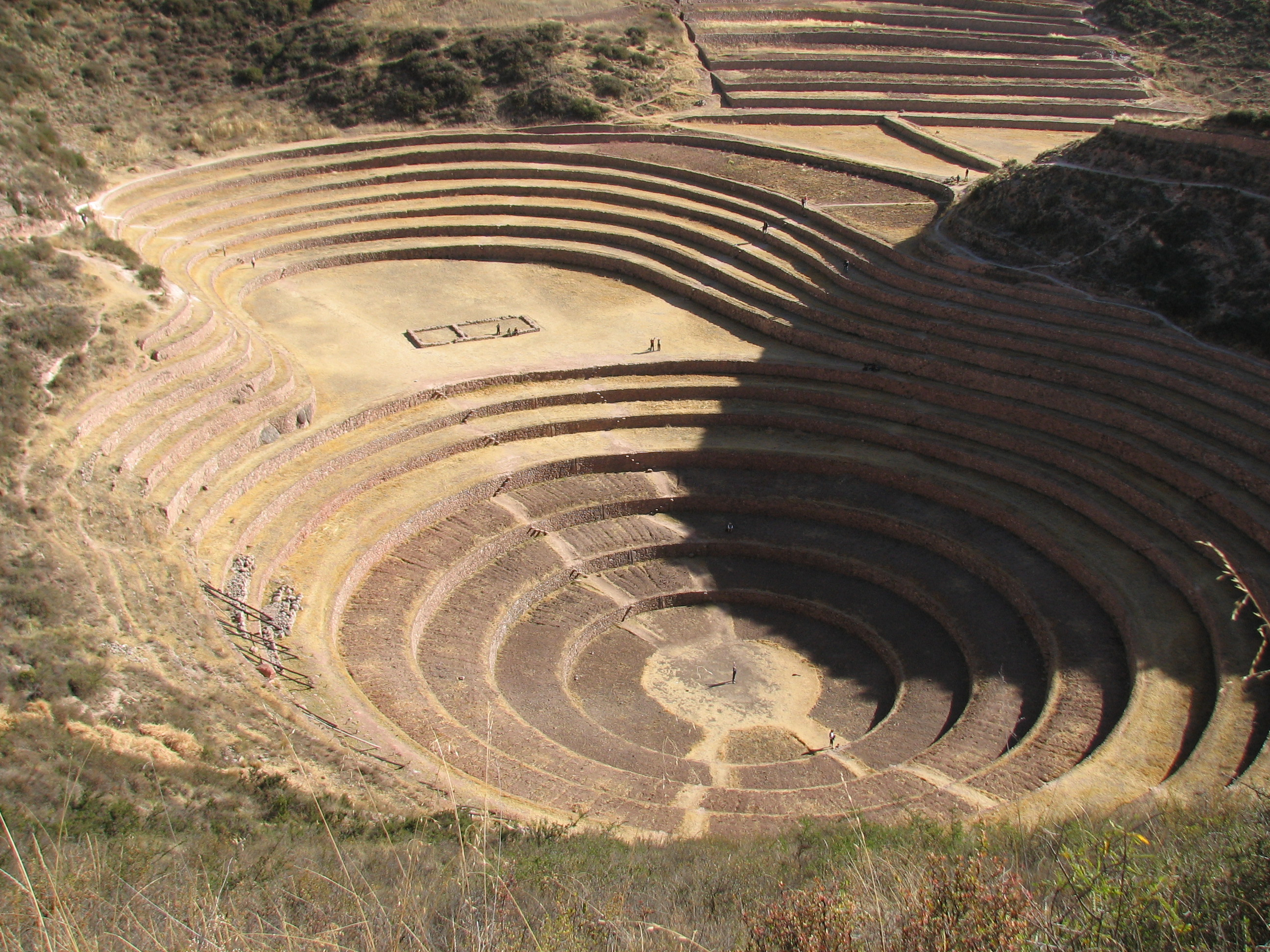 Moray archaeological site in Peru